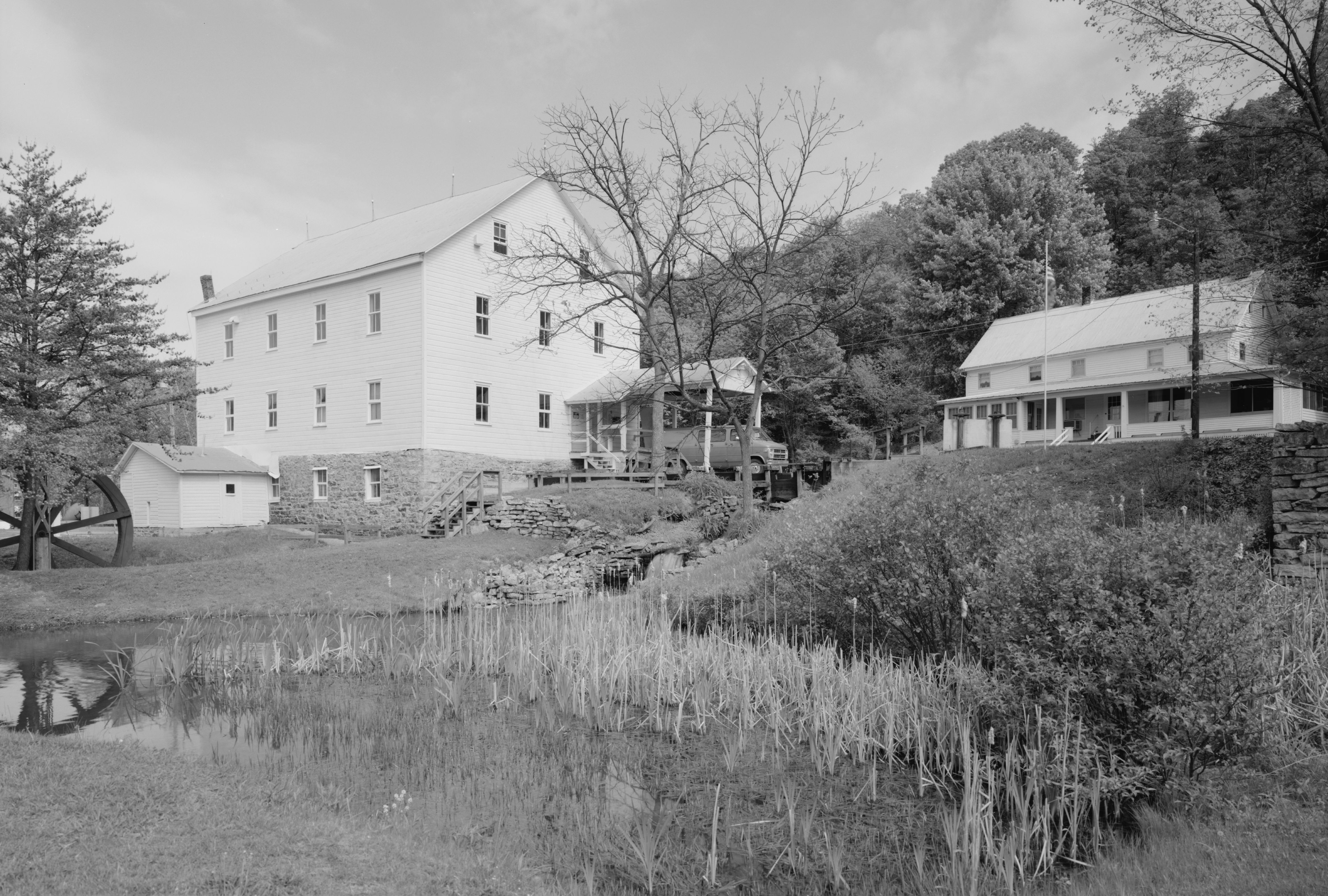 Mill and miller's house at the Burnt Cabins Gristmill Property, located along Allen's Valley Road in Dublin Township, Fulton County, Pennsylvania, United States. Built in 1840, this mill complex is listed on the National Register of Historic Places.